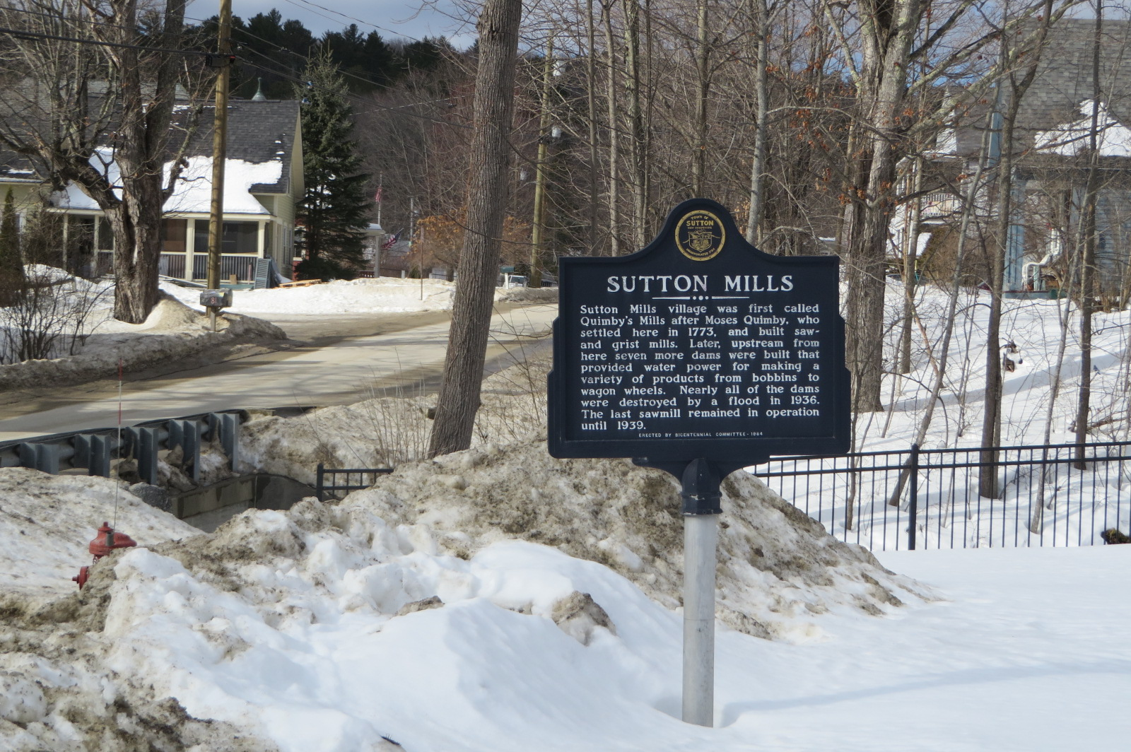 Historic marker for village of Sutton Mills, town center of Sutton, New Hampshire.